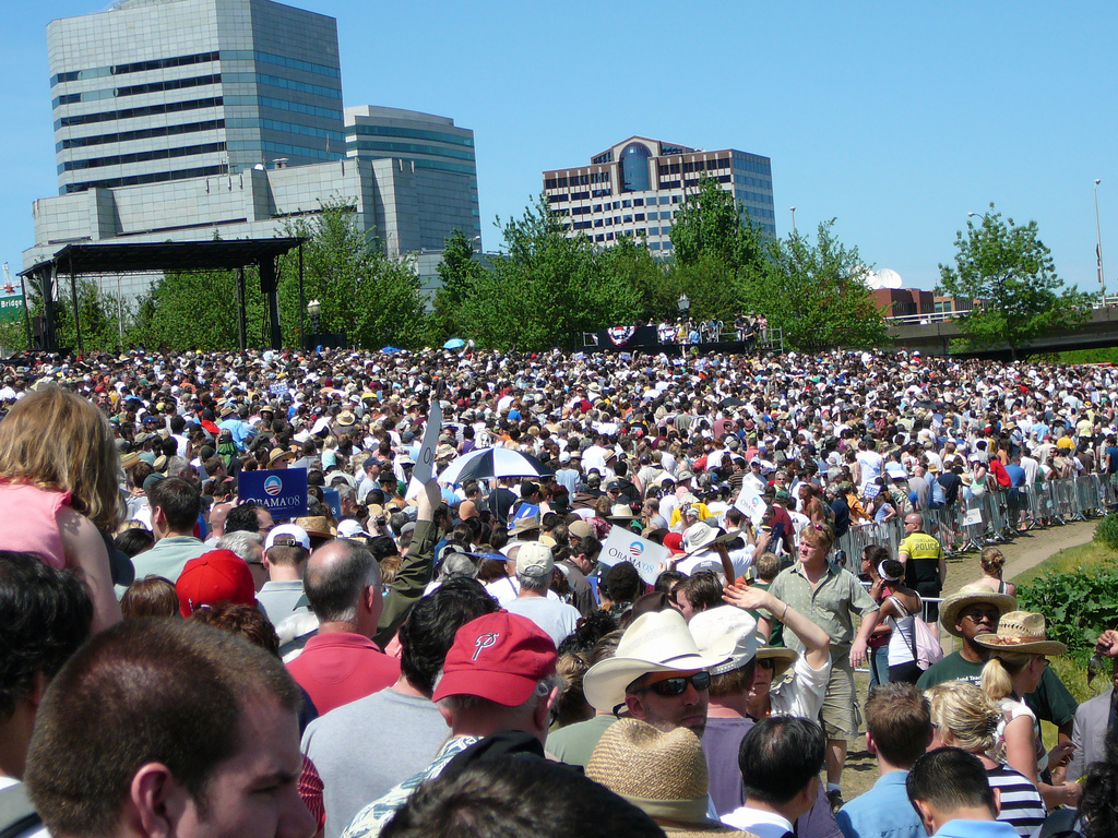 by Ryan Harvey May 19, 2008